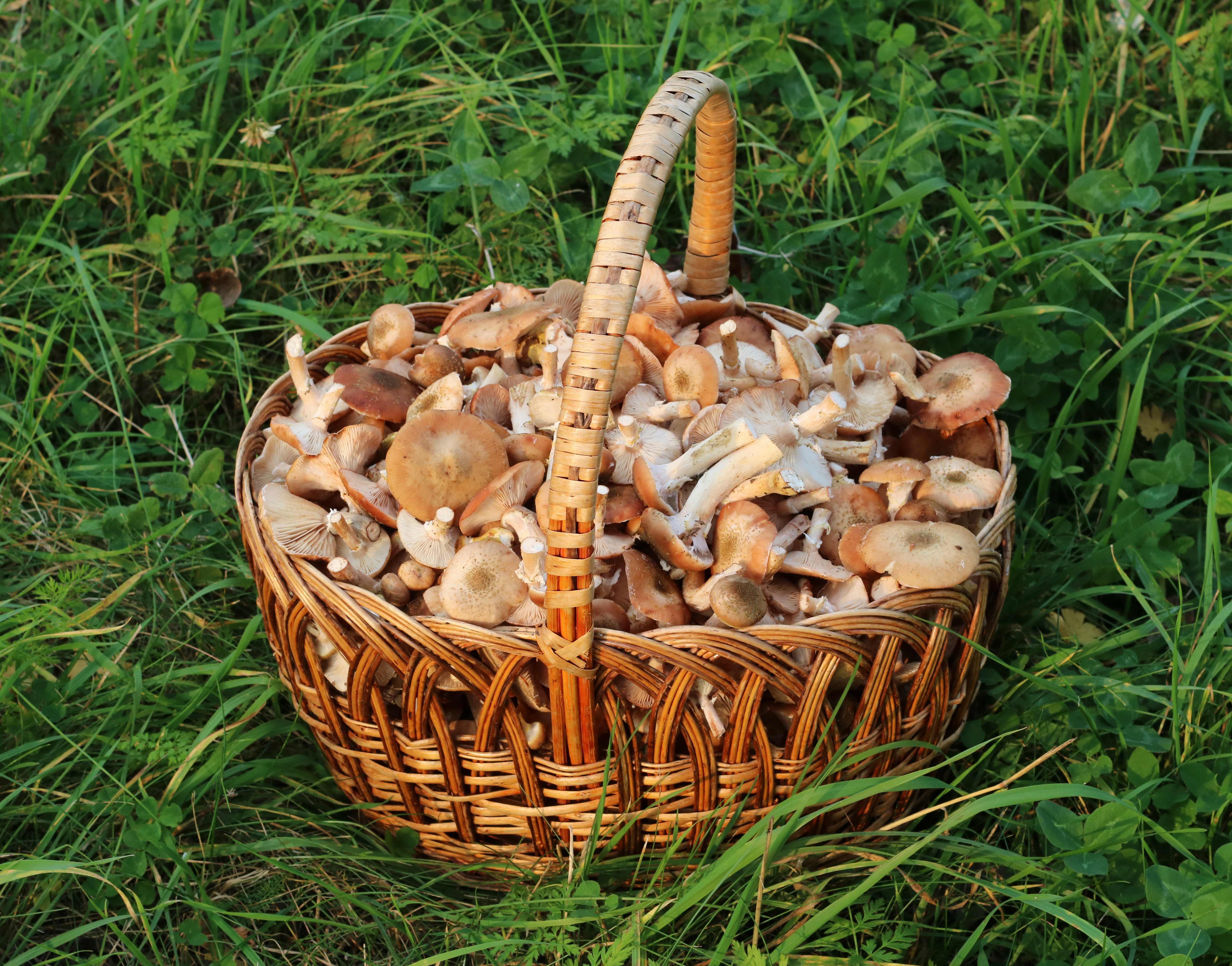 Picked honey fungus (Armillaria mellea) in basket. Trophies of a mushroom hunt. Ukraine.